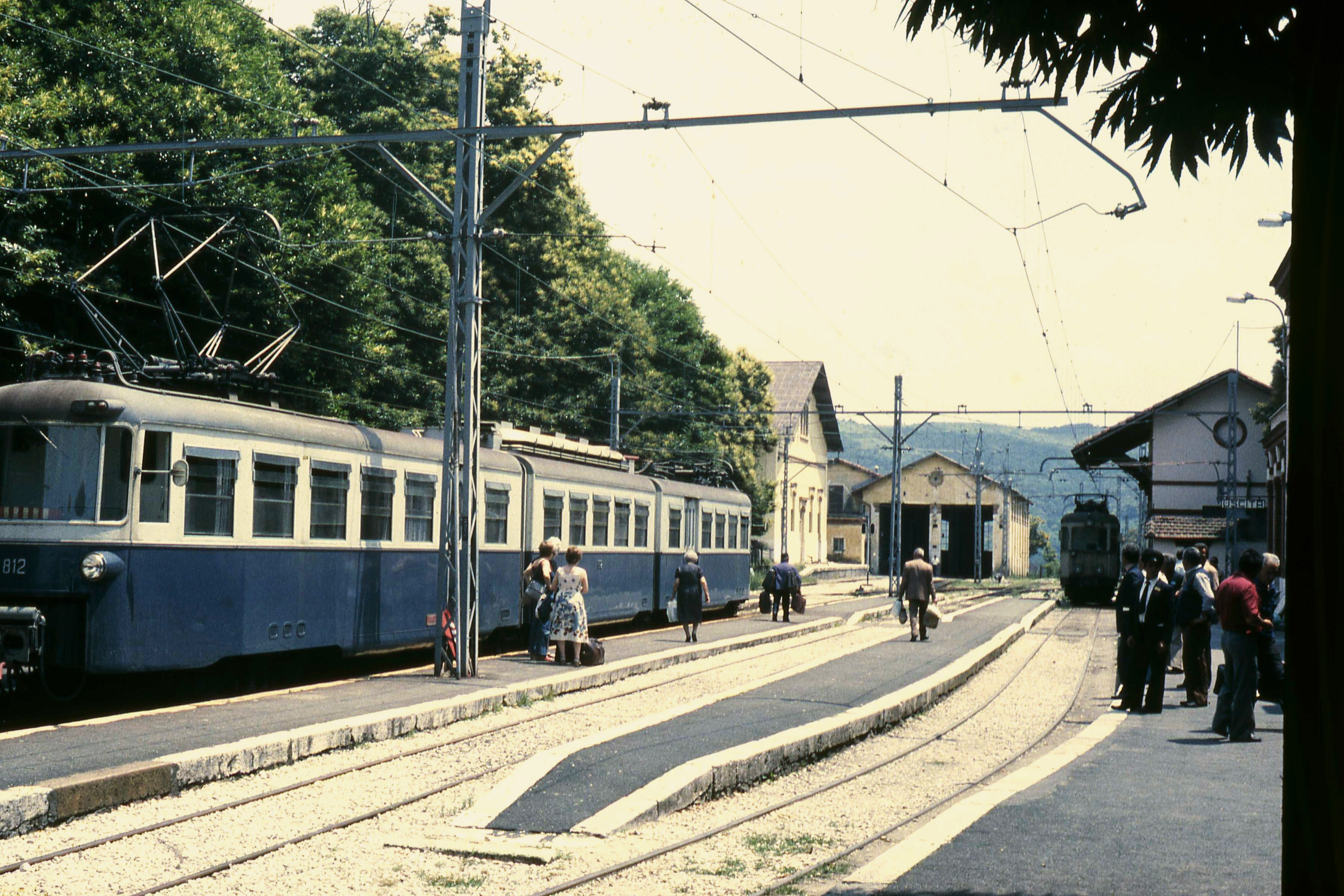 Fiuggi station in 1979.